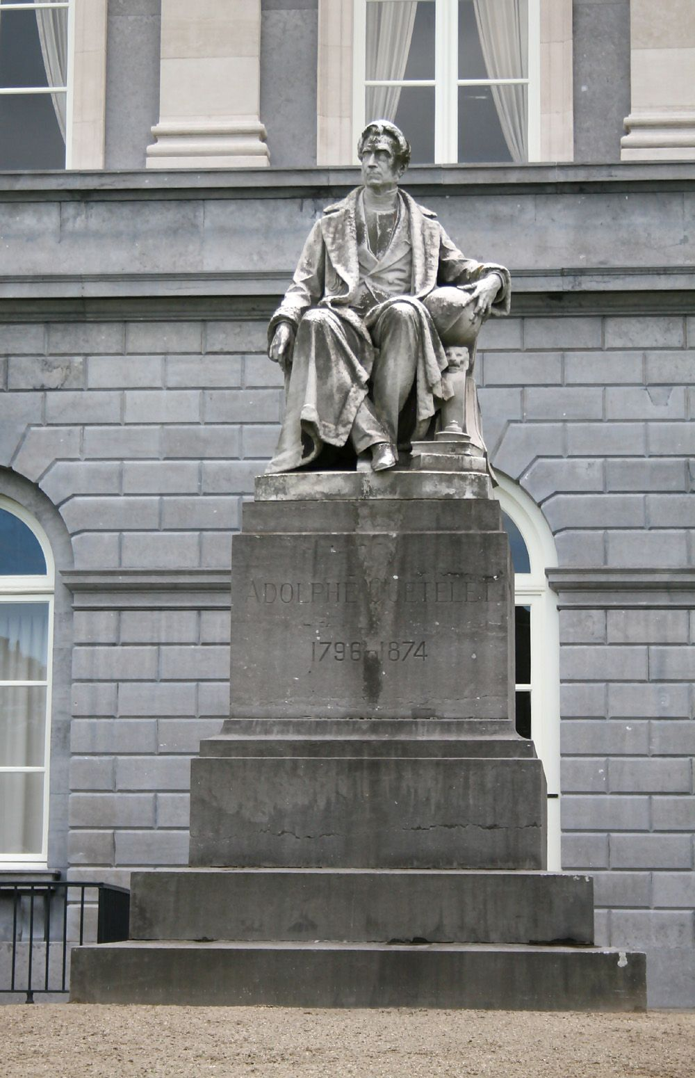 Adolphe Quetelet statue, Brussels. Sculptor is Charles Fraikin (1817-1893), this statue is now in the public domain.